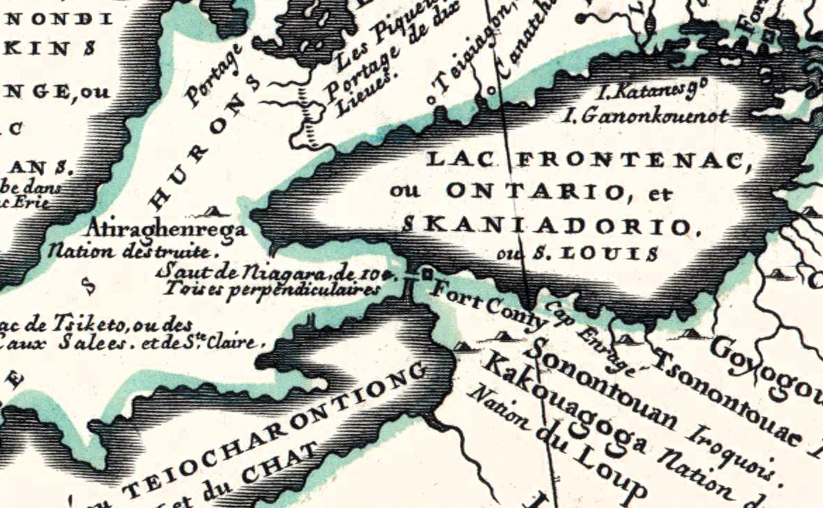 English translation: The Western part of Canada or the New France where the nations of Illinois, of Tracy [Lake Superior], the Iroquois and many other peoples inhabit. With recently discovered Louisiana Drawn according to the newest reports By P. Coronelli, a cosmographer of the Most Serene Republic of Venice Corrected and augmented by Sir Tillemon. And dedicated to Monsieur abbot Baudard [Printed by] J.B. Nolin in the Quai de l'Horloge of the Palace across the Pont Neuf under the sign of the Place des Victoires With the privilege of the King